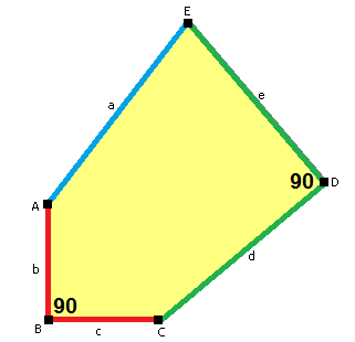 monohedral convex pentagonal tiling #4 b=c d=e B=90 D=90 (A+C+E=360)